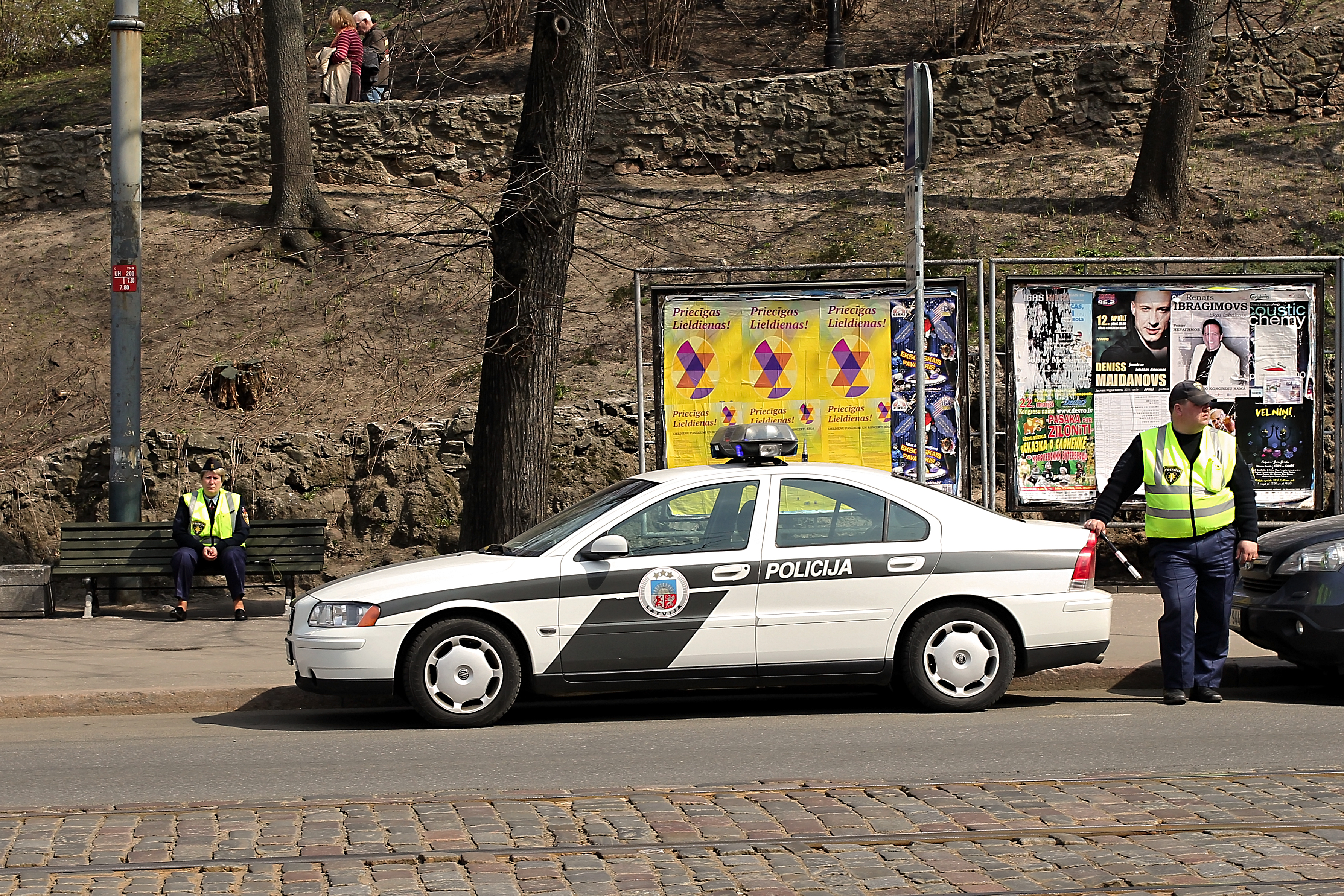 Police officers watching the traffic for the 2011 Good Friday procession in Riga, Latvia.